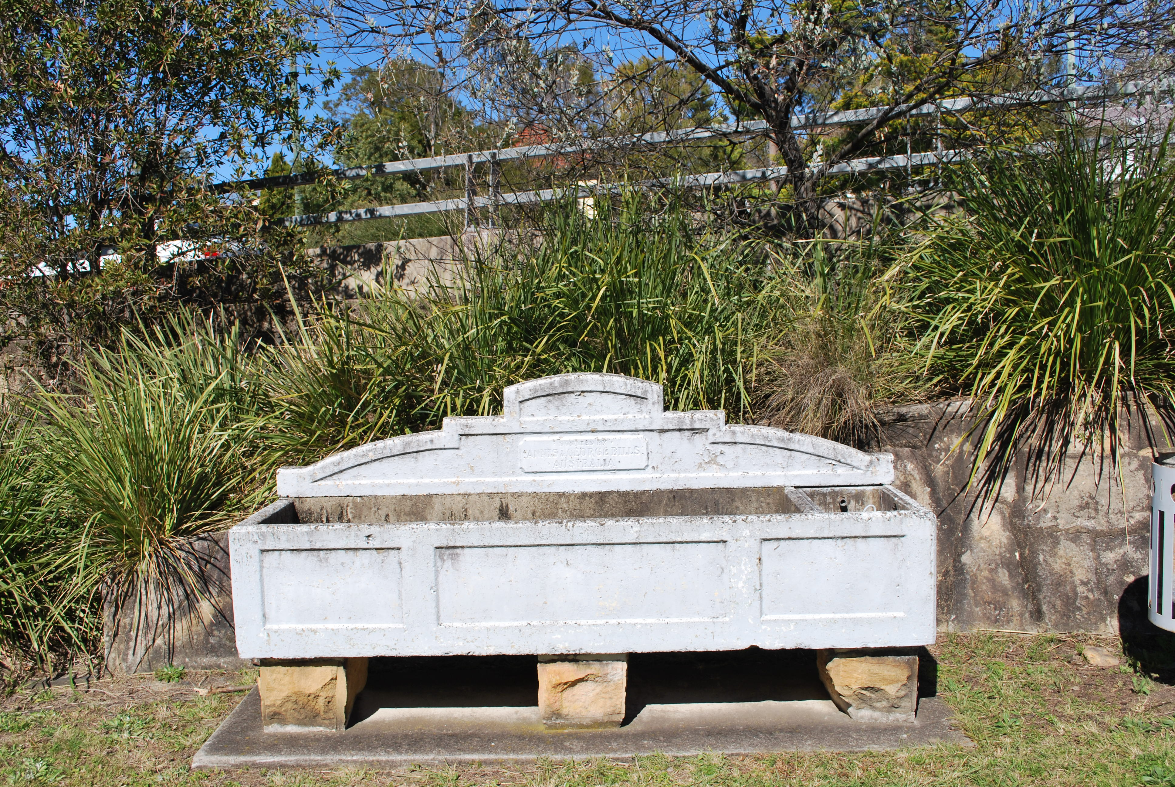 Bills horse trough in Warrimoo, New South Wales